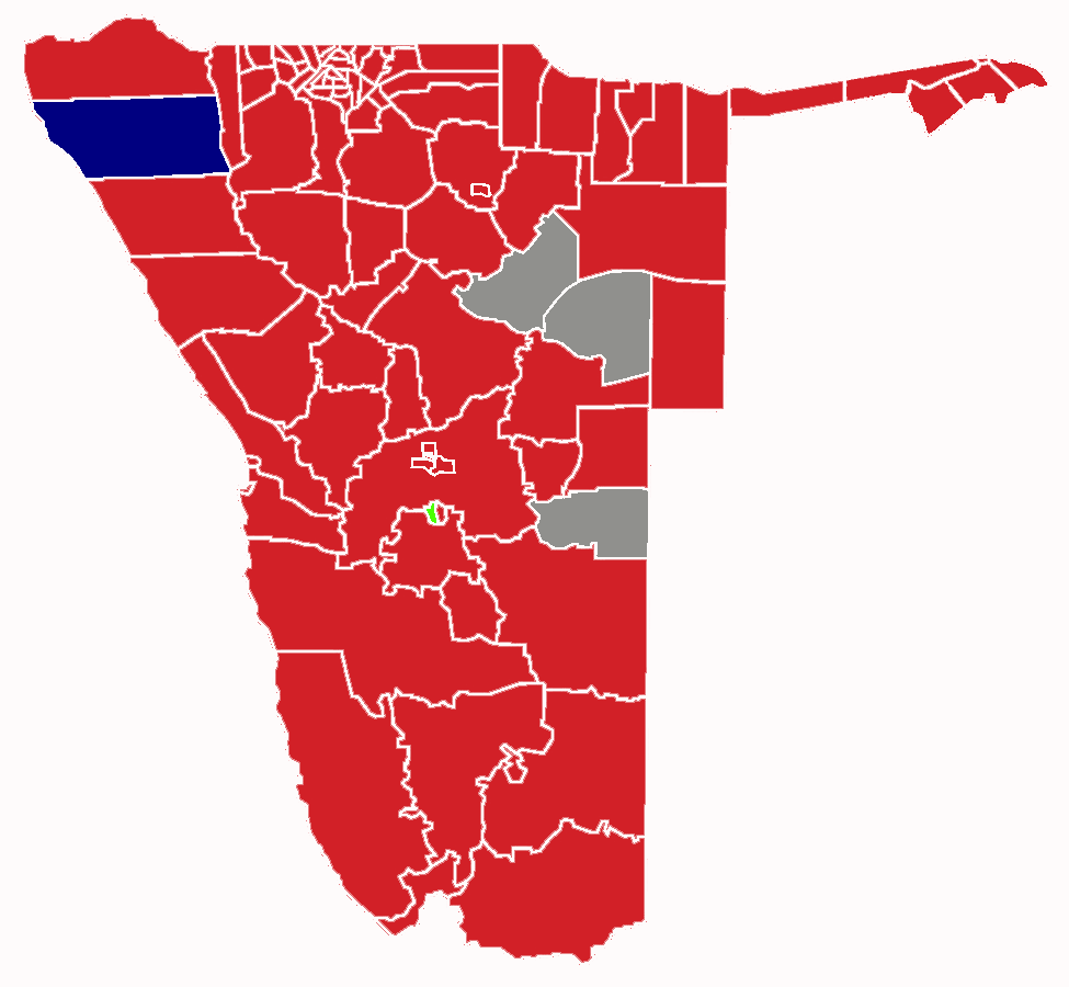 Map of Results of the Namibian General Election 2014. SWAPO DTA (PDM) NUDO UPM